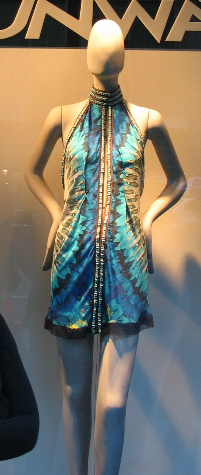 Dress designed by Ule Herzner for Project Runway